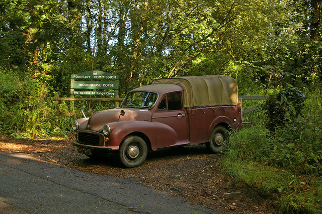 Entrance to Woodhouse Copse Small area of Forestry Commission woodland on Brocks Copse Road.